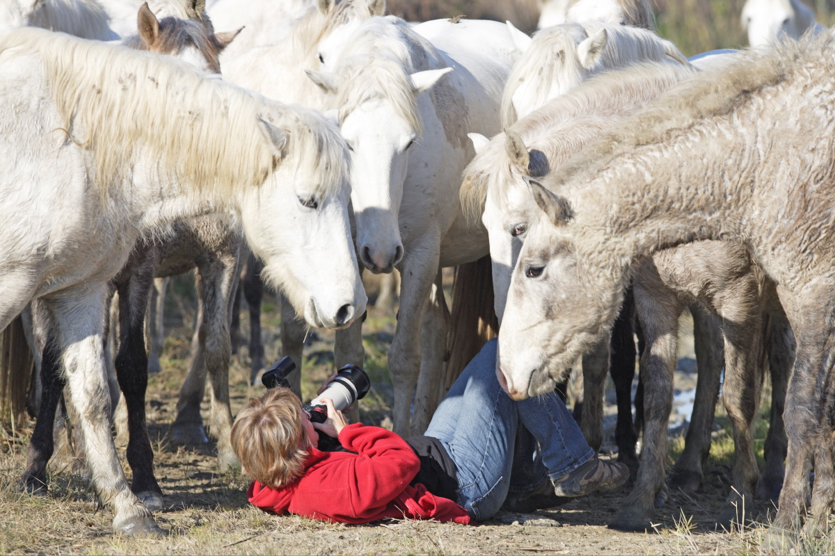 Christiane Slawik at work